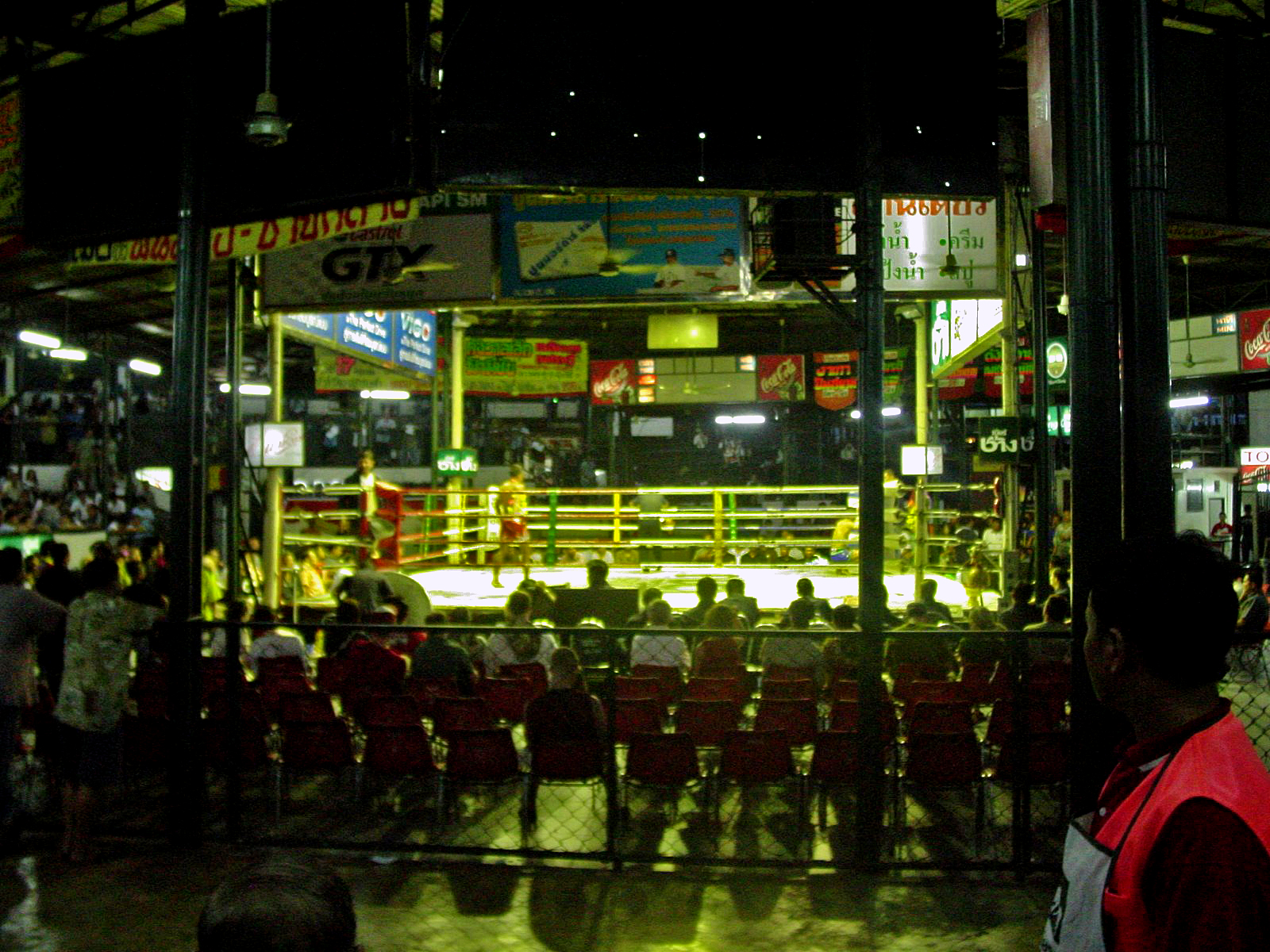 Lumpinee Boxing Stadium. A sports venue in Bangkok, Thailand.